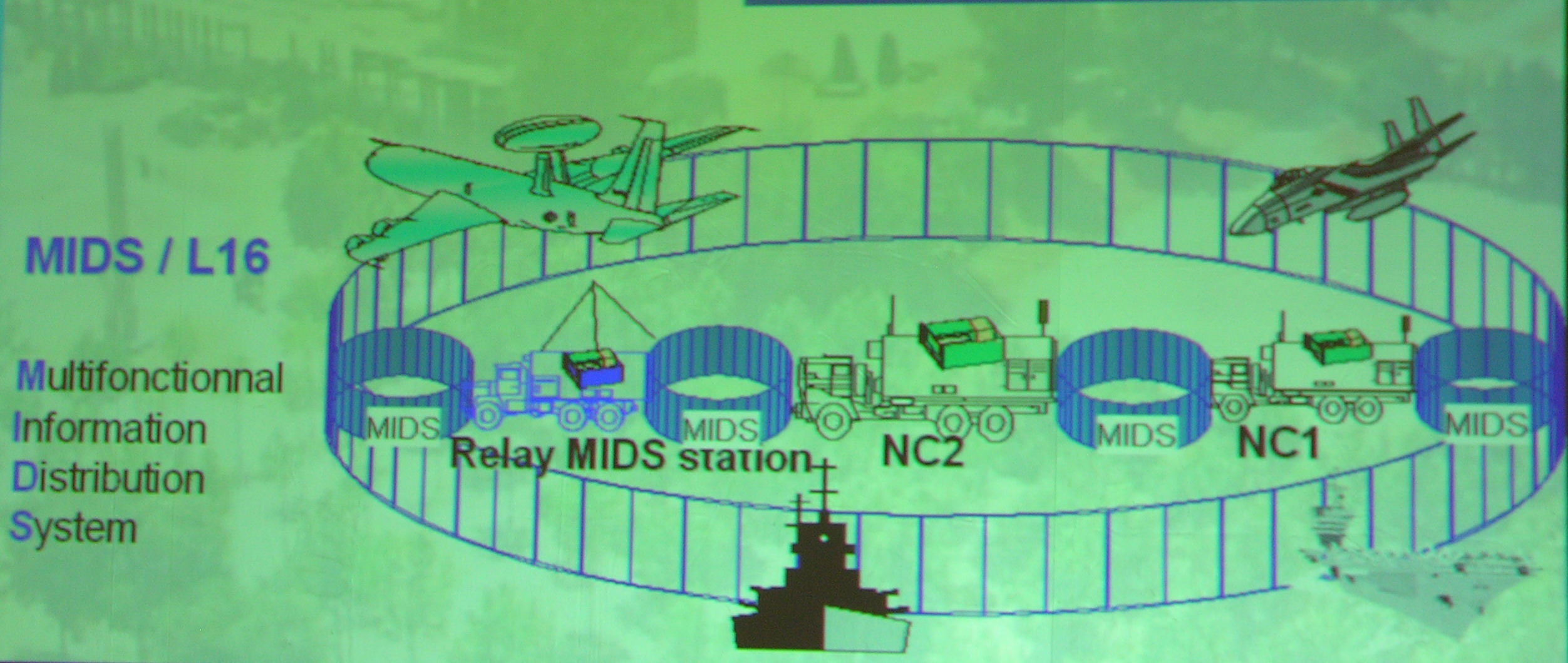 MIDS Concept